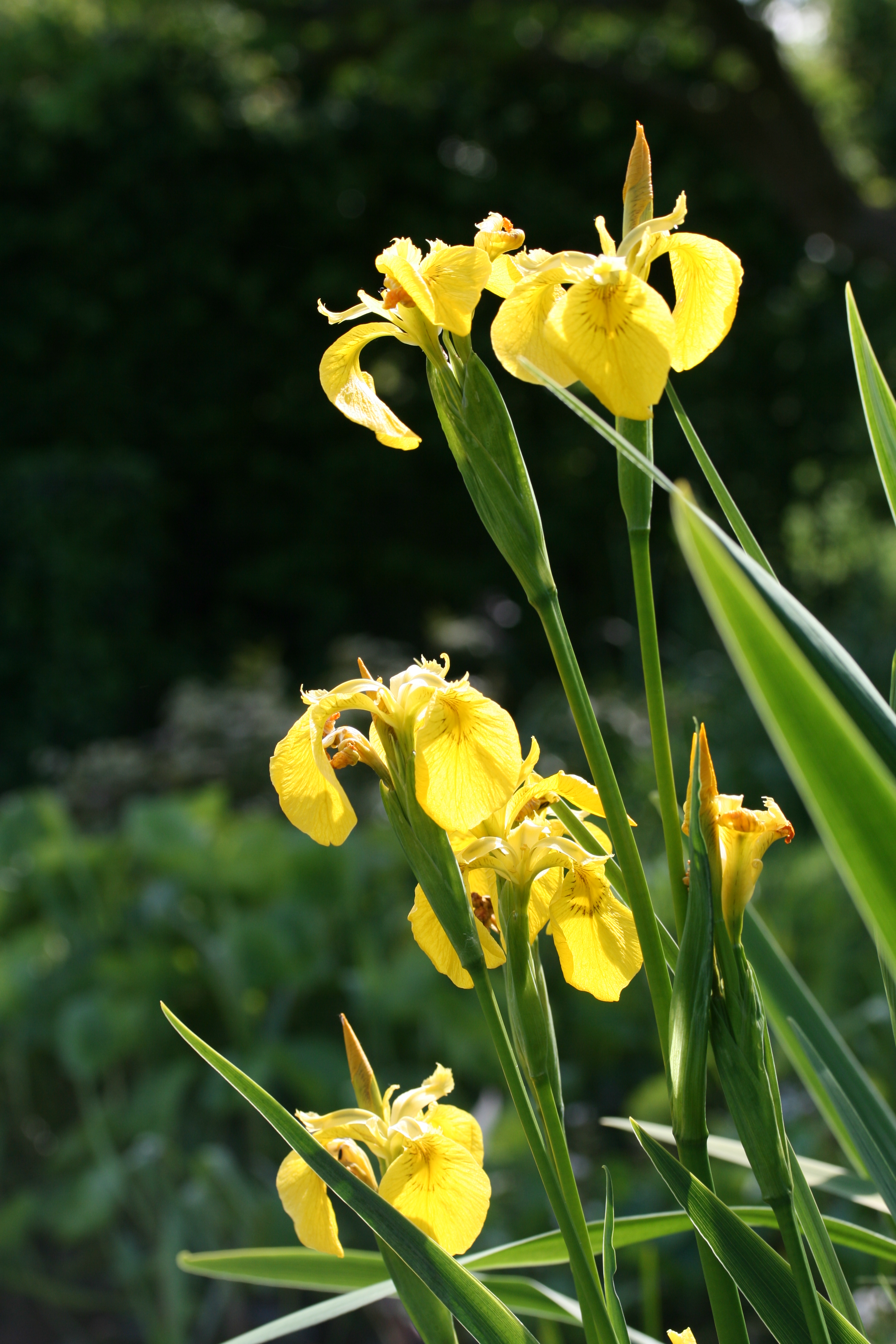 Iris pseudacorus England